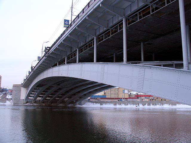 Bolshoy Krashnokholmsky Bridge, Moscow, Russia - structure